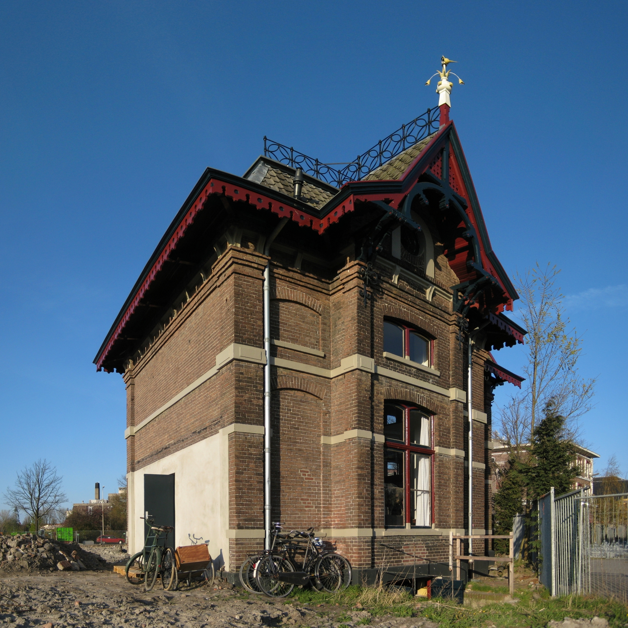 Service building (1892) of the former gas factory in the Dutch city of Groningen.